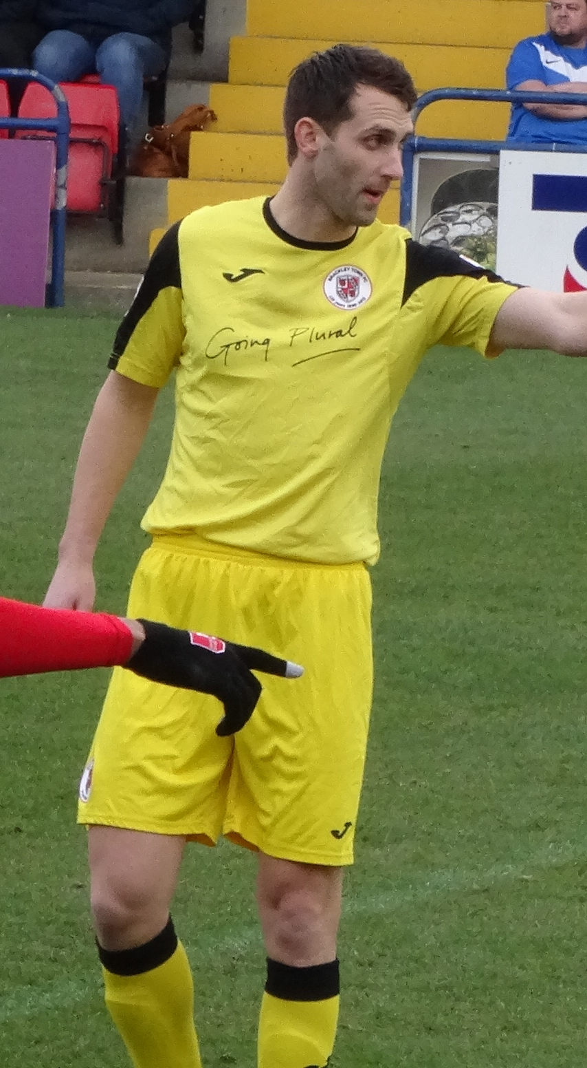 Luke Graham playing for Brackley Town against York City at Bootham Crescent, York on 25 February 2017